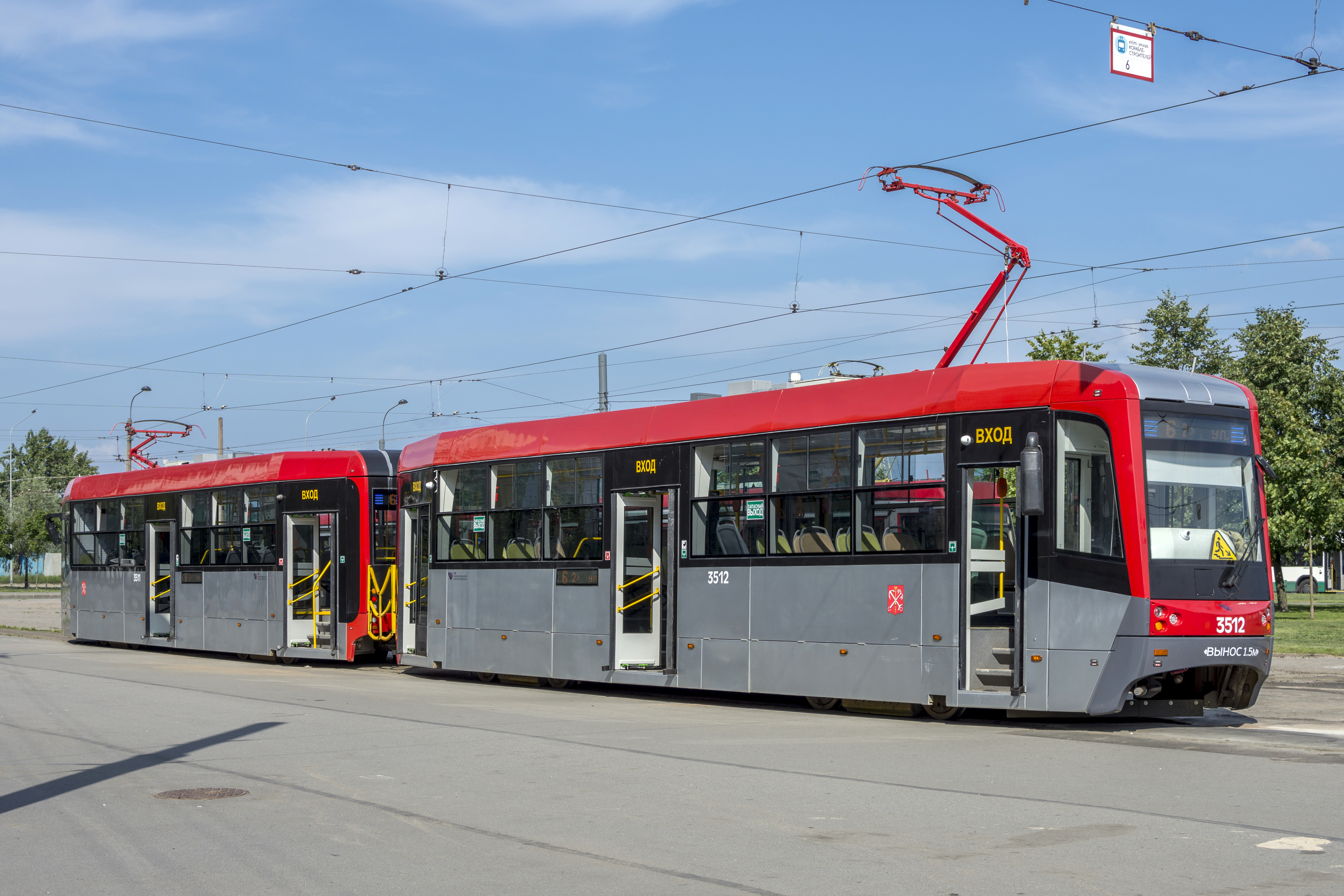 Tram LM-68M3 (MU) in Saint Petersburg